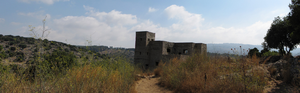 Ein-Tina police Station, Geography of Israel